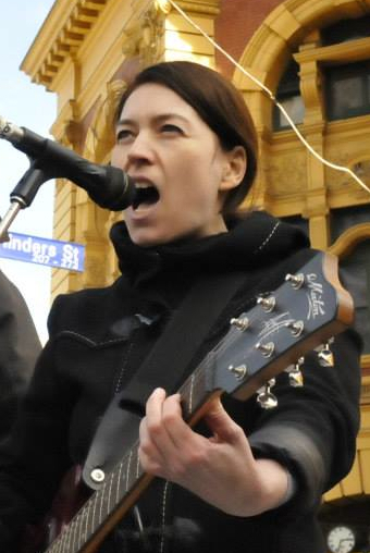 Laura MacFarlane performing at Finders St Station for Public Transport Rally 2014